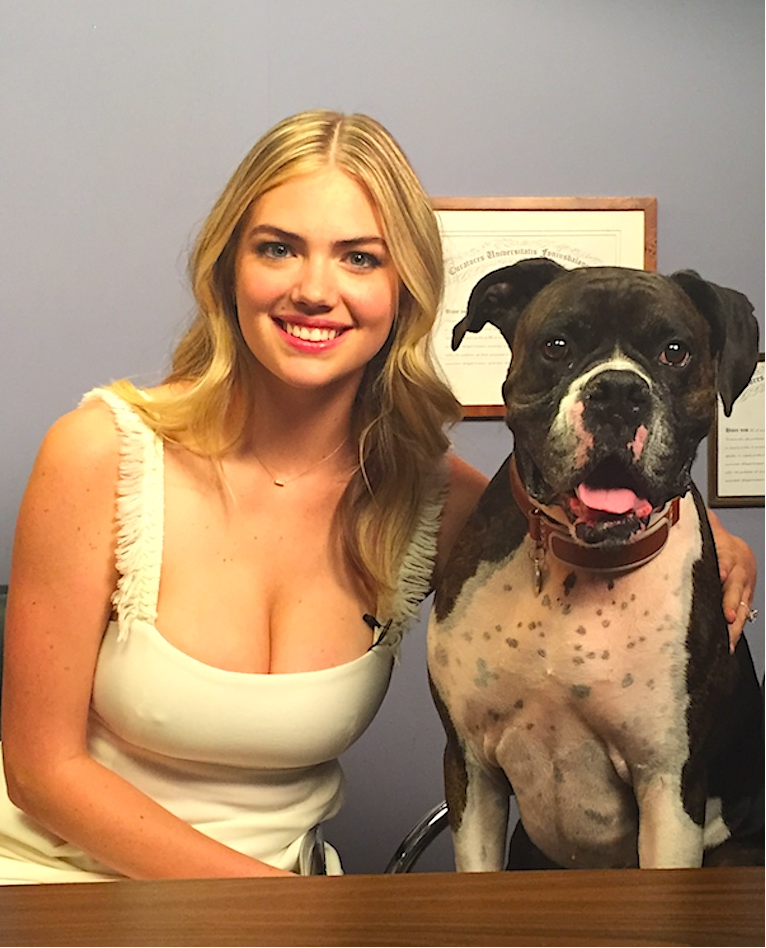 Crop of Kate Upton and Harley Upton